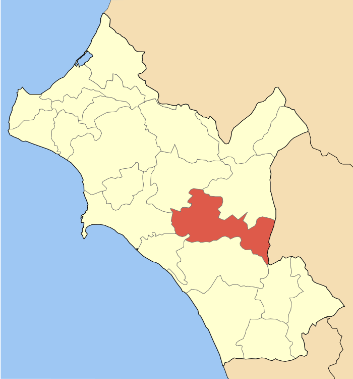 Locator map of Archea Olymbia municipality (Δήμος Αρχαίας Ολυμπίας) in Elis perfecture (Νομός Ηλείας) in Greece.